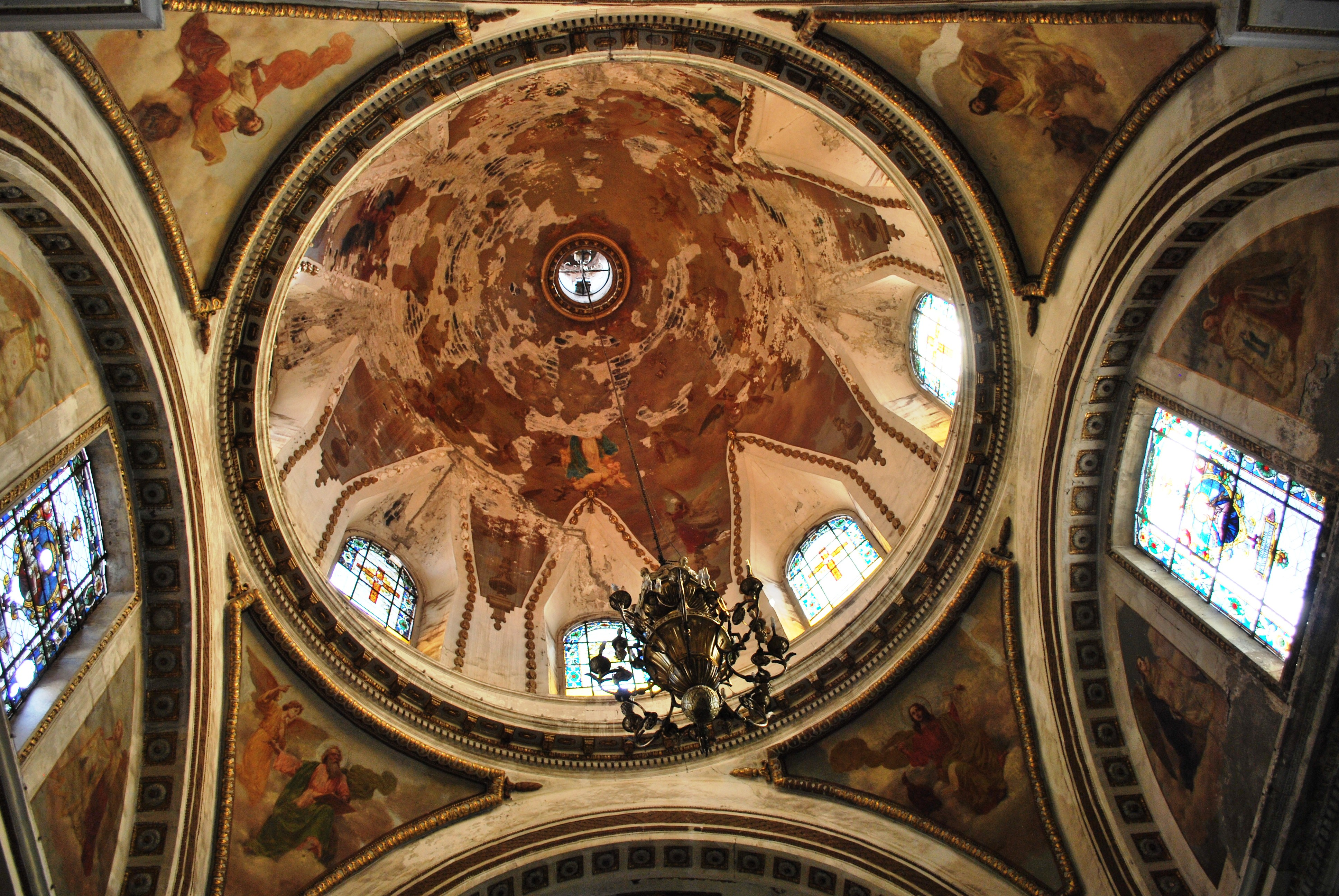 Cupola of the Parish of Jesus y Maria y Nuestra Señora de la Merced located in the historic center of Mexico City